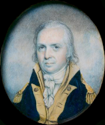 A painting of U.S. Army General Josiah Harmar, by artist Raphaelle Peale. The painting is on display in the Diplomatic Reception Rooms of the U.S. Department of State.